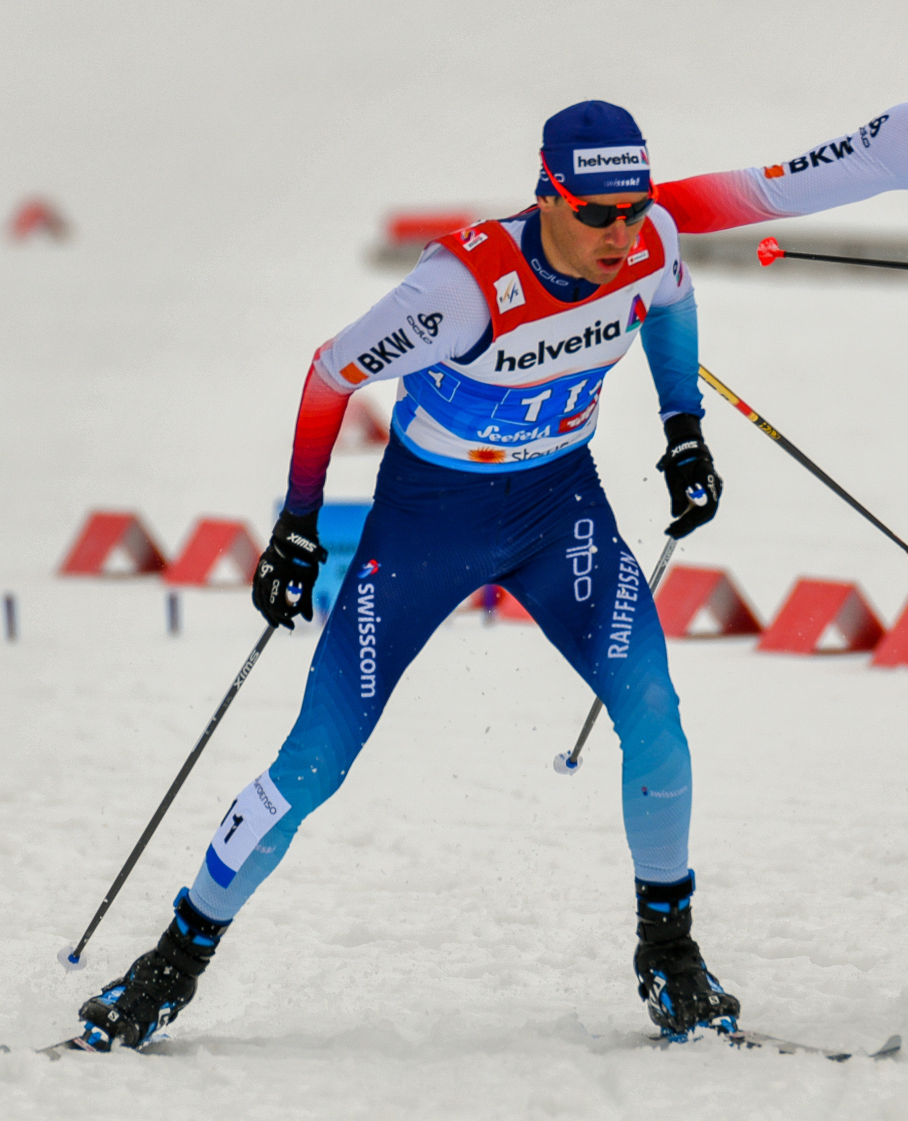 FIS Nordic Wolrd Ski Championships Seefeld 2019 - Men 4x10km Relay Classic/Free. Picture shows Toni Livers (SUI), Dario Cologna (SUI).